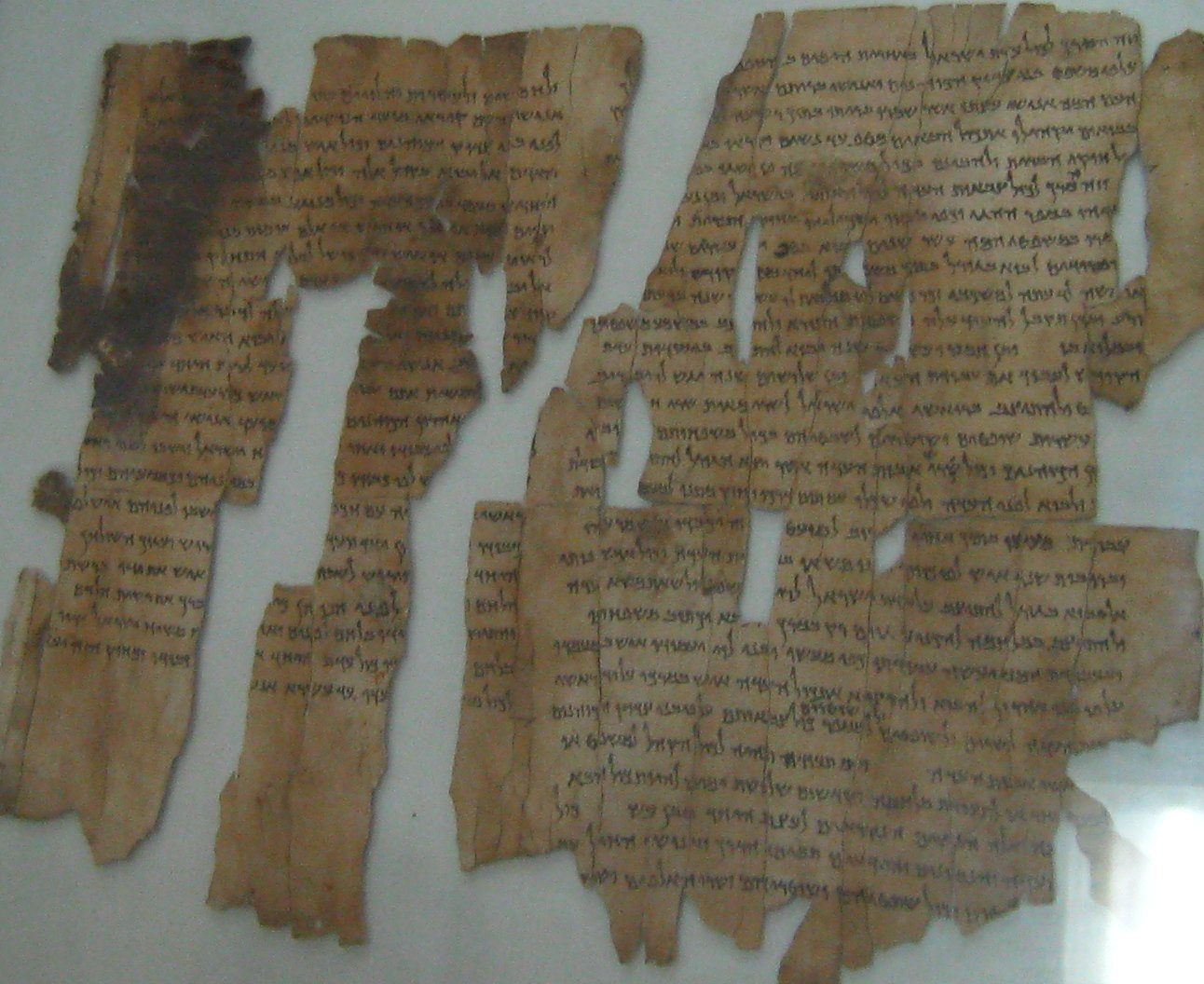 Dead Sea scrolls shown in Amman Archoelogy Museum